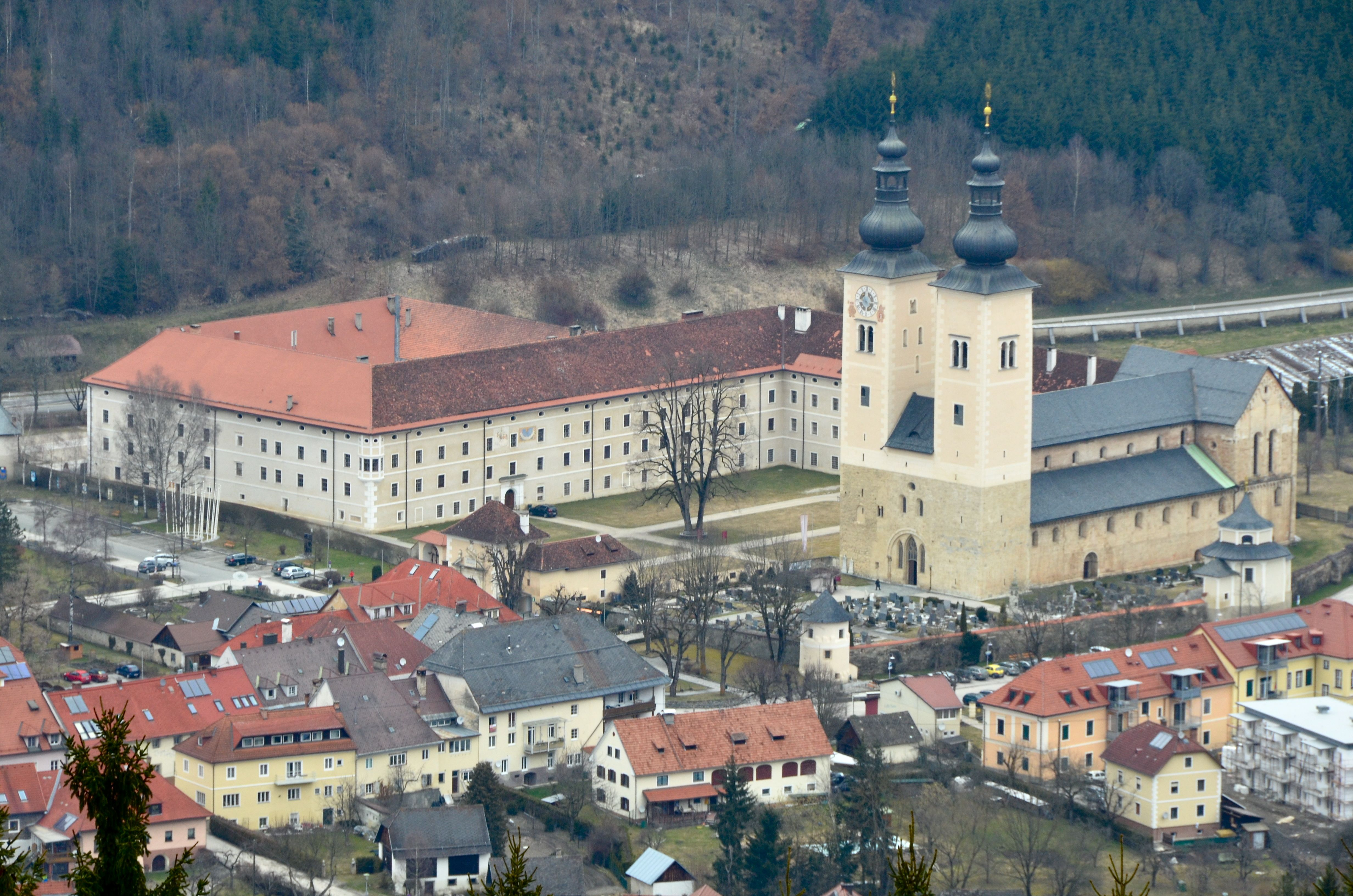 South west view of the cathedral with cemetery and monastery, market town Gurk, district Sankt Veit an der Glan, Carinthia, Austria, EU